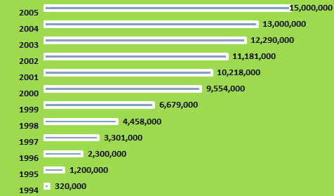 A person made this graph, from data found in Wikipedia, and release all rights to this.